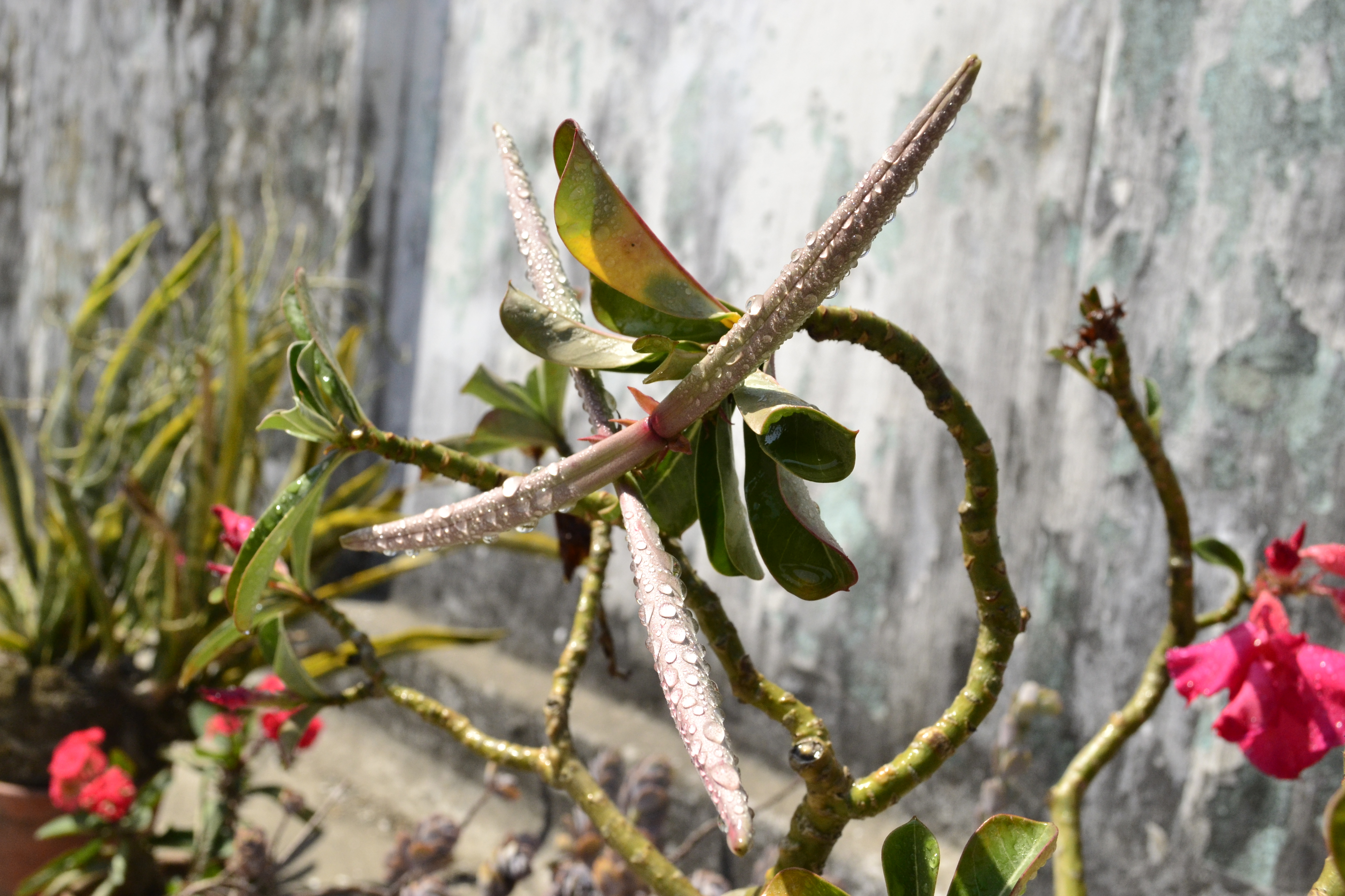 Fruits in Adenuim Obesum